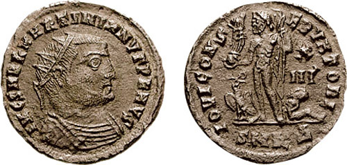 Martinian Æ Follis. 324 AD. IM C S MAR MARTINIANVS P F AVS, radiate, draped & cuirassed bust right / IOVI CONSERVATORI, Jupiter standing left, holding Victory on globe in right hand & scepter in left; to left, eagle standing left, head right with wreath in beak; to right, bound captive seated right; X/IIG/SMKD. Cohen 2.